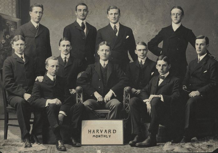 Staff of The Harvard Monthly 1902: Editor-in-Chief: Robert Montraville Green Business Manager: Herbert Spencer Martin Assistant Business Managers: Alfred Edward Ells, Arthur Linwood Thayer, Merwin Kimball Hart Editors: Laurence Murray Crosbie, George Clarkson Hirst, Henry Wyman Holmes, Harold Stanley Pollard, Howard Ruggles Van Law, Lauriston Ward, Hoyt Landon Warner, Barrett Wendell Jr., Samuel Alfred Welldon Image designated HUPSF 3 for purposes of archive retrieval